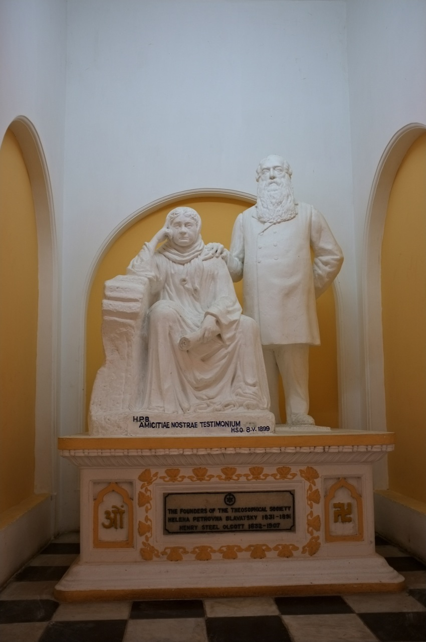 Theosophical Society Adyar